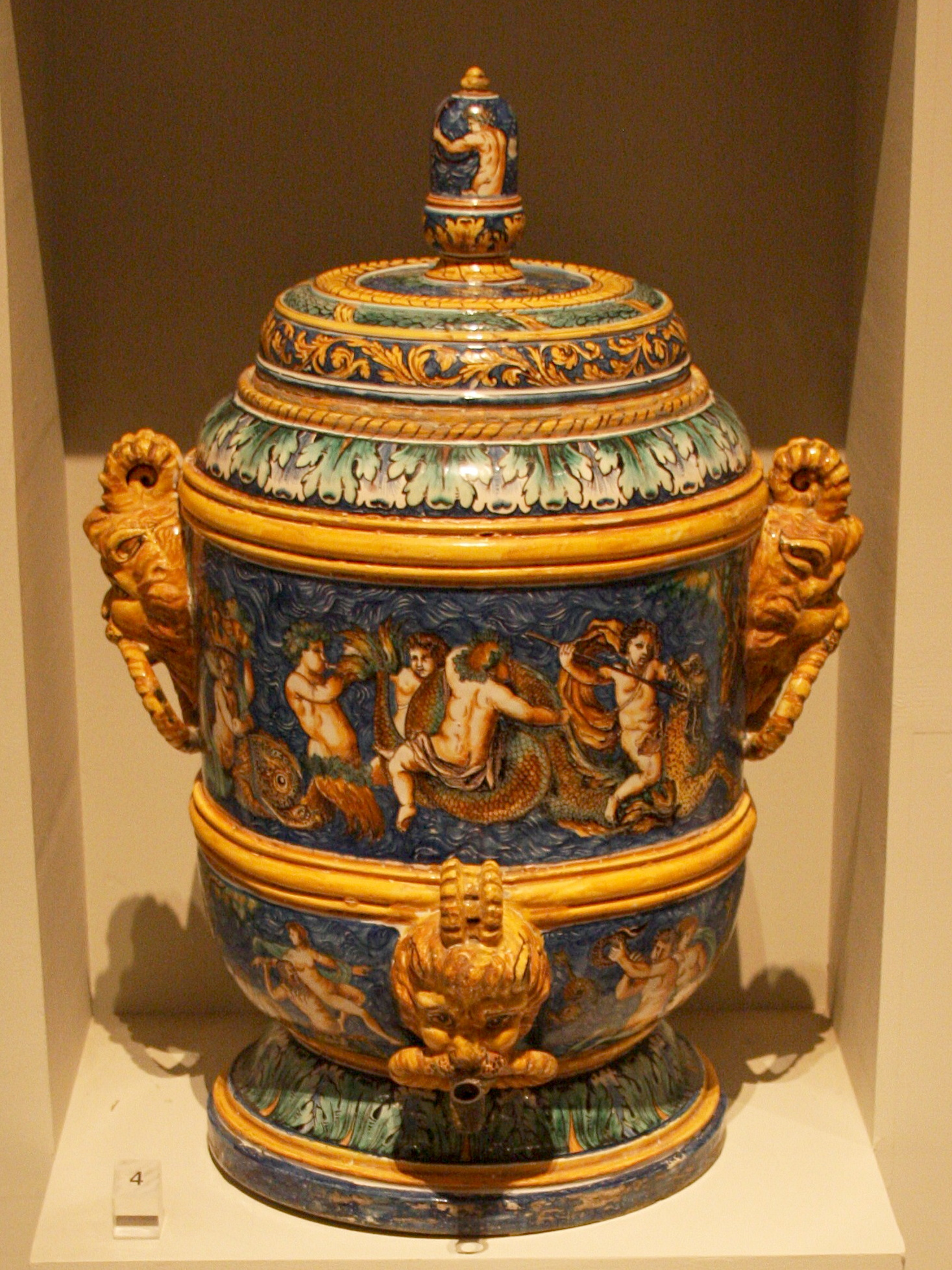 Faience cistern with sink from the city of Nevers, France, c. 1600. The Nevers faience industry was founded by italians in 1588, and influenced by the "Istoriati tradition". National Museum, Stockholm.